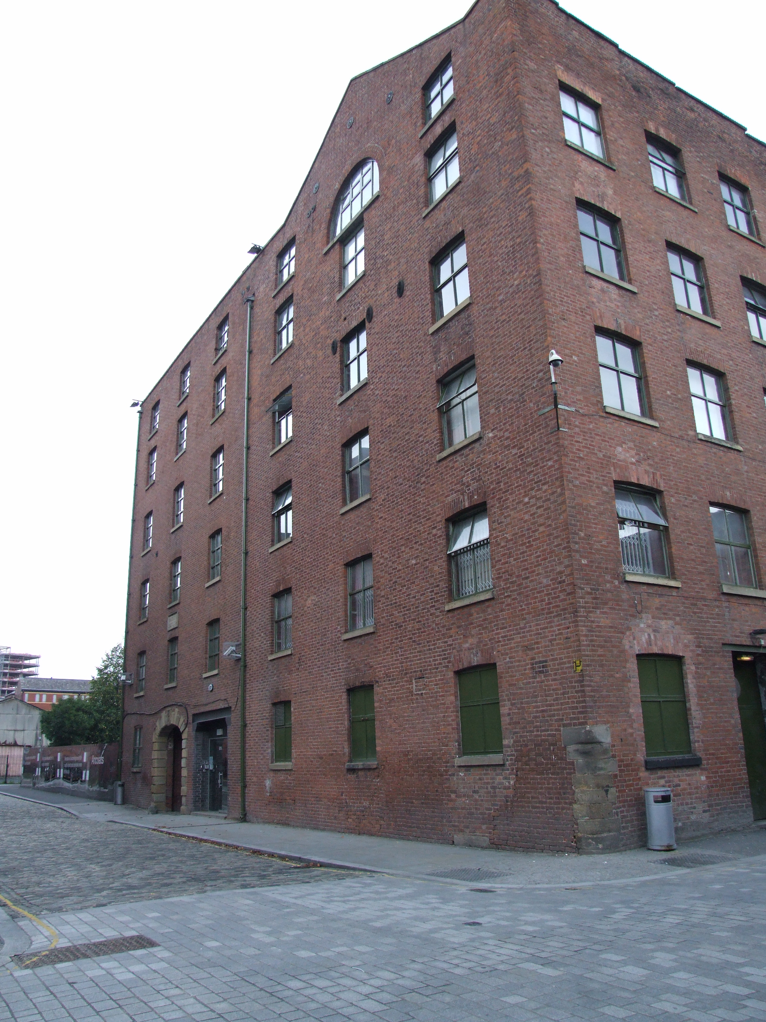 The first cotton mills were built in Ancoats as early as 1790. The Beehive Mill the 1820, and 1824 block